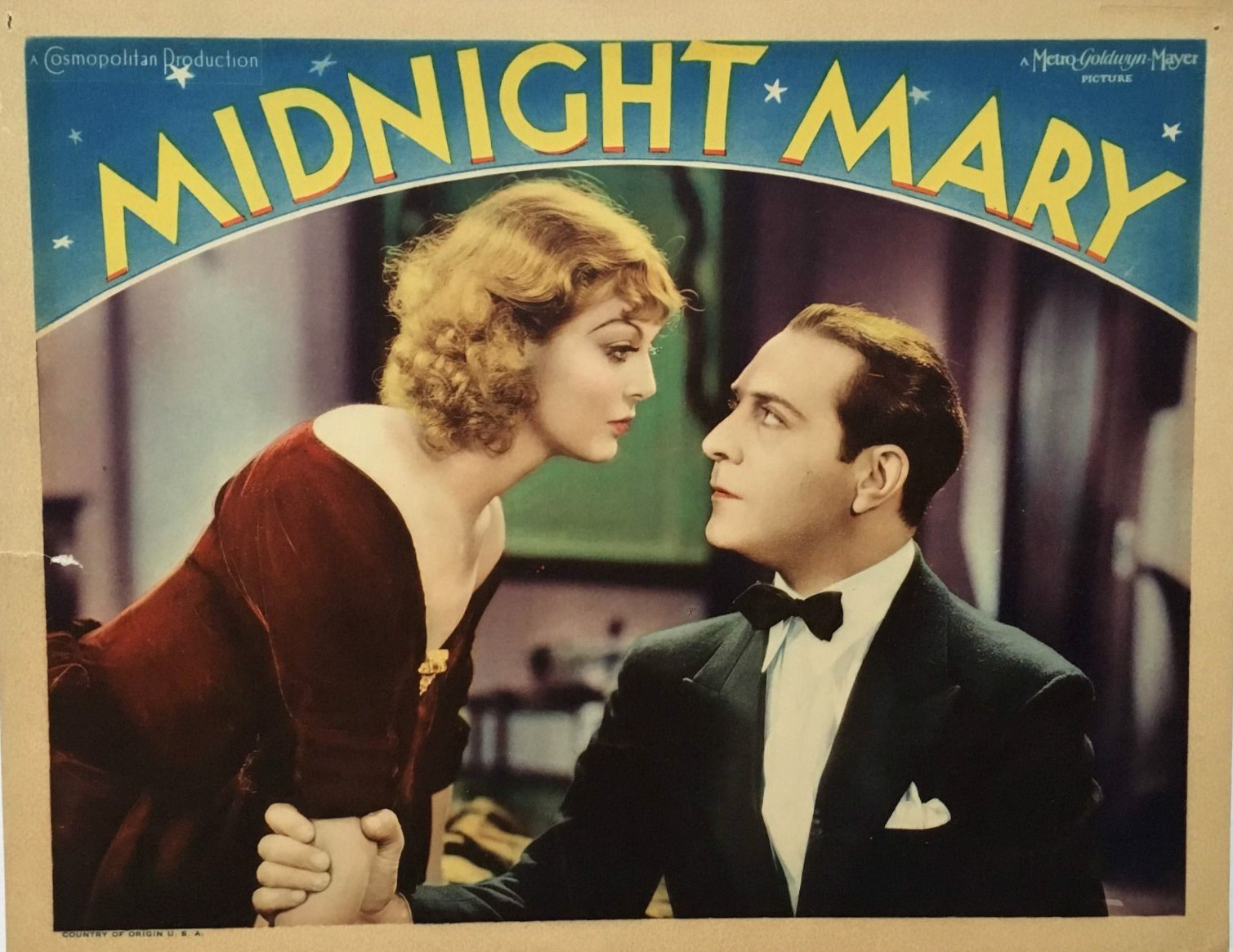 Lobby card for the American crime drama film Midnight Mary (1933).